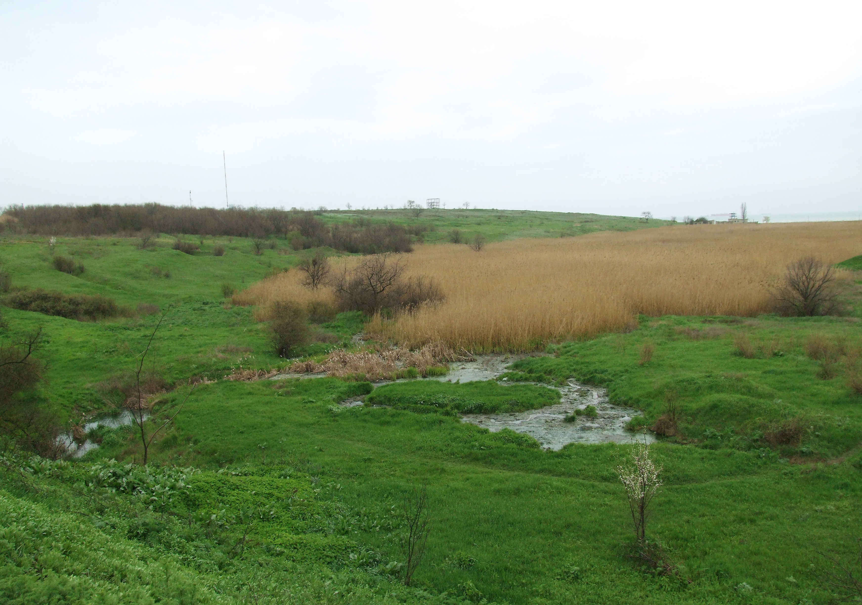 A stream in Chornomorske, Kominternivskyi Raion, Odessa Oblast, Ukraine